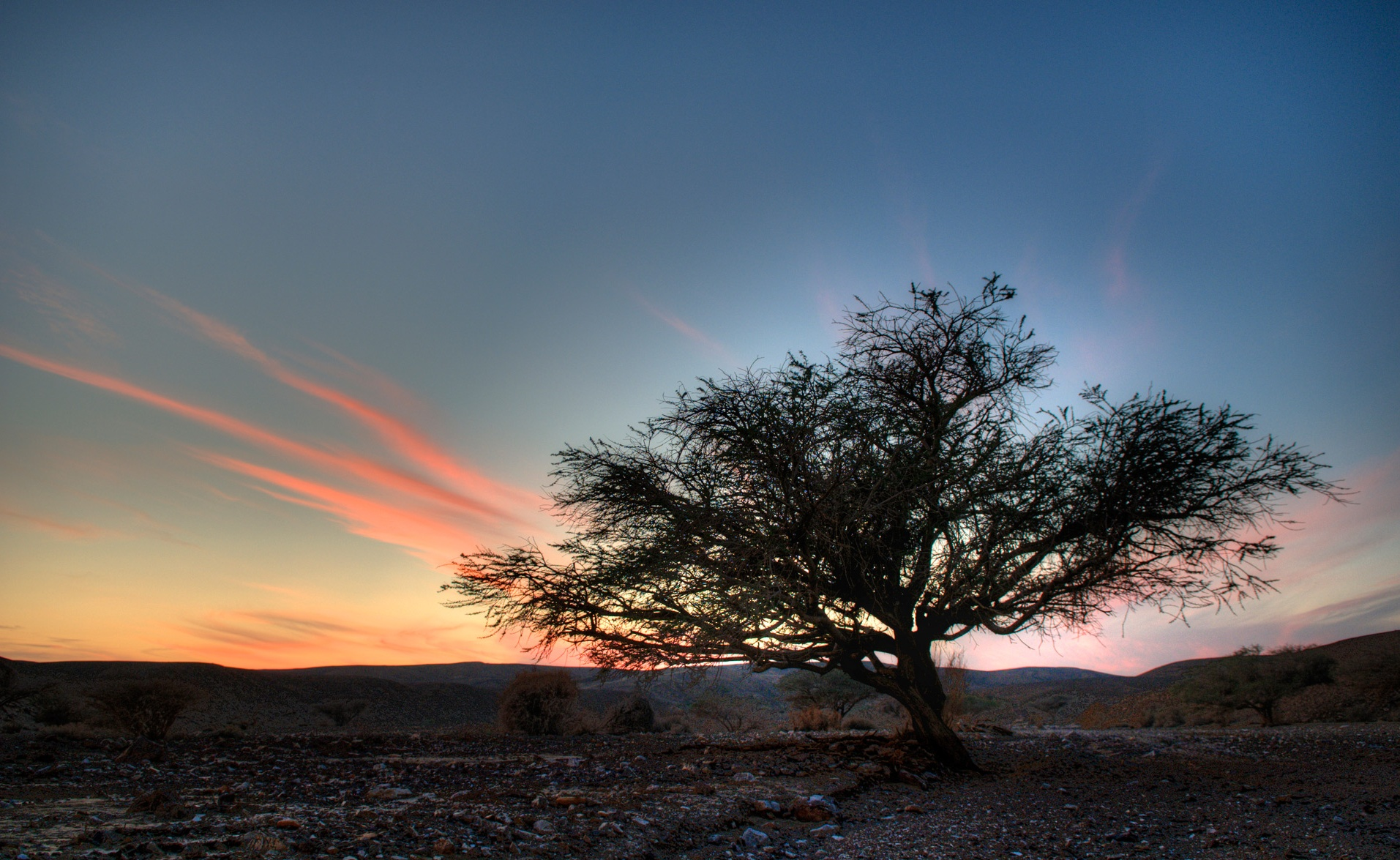 Shita (Acacia) in the Negev. Of the three Acacia species growing in the desert areas of Israel, Acacia pachyceras is the most cold-resistant. It occurs in high plateaux of the Negev, Sinai, and Jordan.